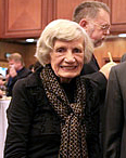 Věnceslava Hrdličková, Associate Professor of the Faculty of Arts, Charles University, attended the Reception to Celebrate the Emperor's Birthday with Hideaki Kumazawa, Ambassador to the Czech Republic, at Hilton Prague in Prague City on December 7, 2006.